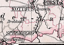 Detail from a map of Brandenburg.